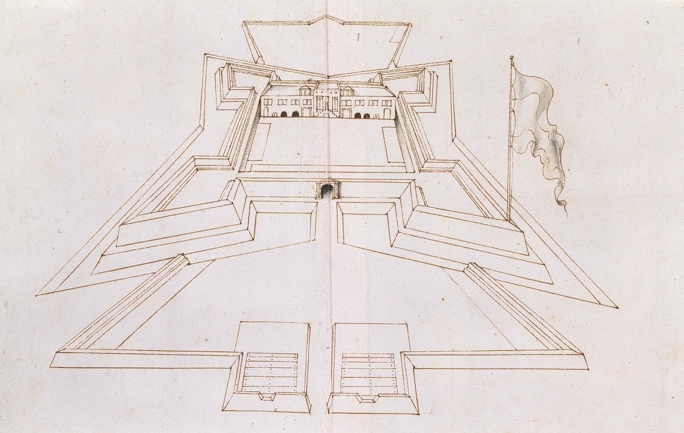 According to the Leupe catalogue (NA), the original title reads: Plan als voren, en opstand referring to the title of VEL0818: Plan van het Fort de Goede Hoop. Notes on reverse: fort de goede Hoop, van de Kaap 1656 4 deel nr. 498 f; nr. 299. On the left a flagpole.